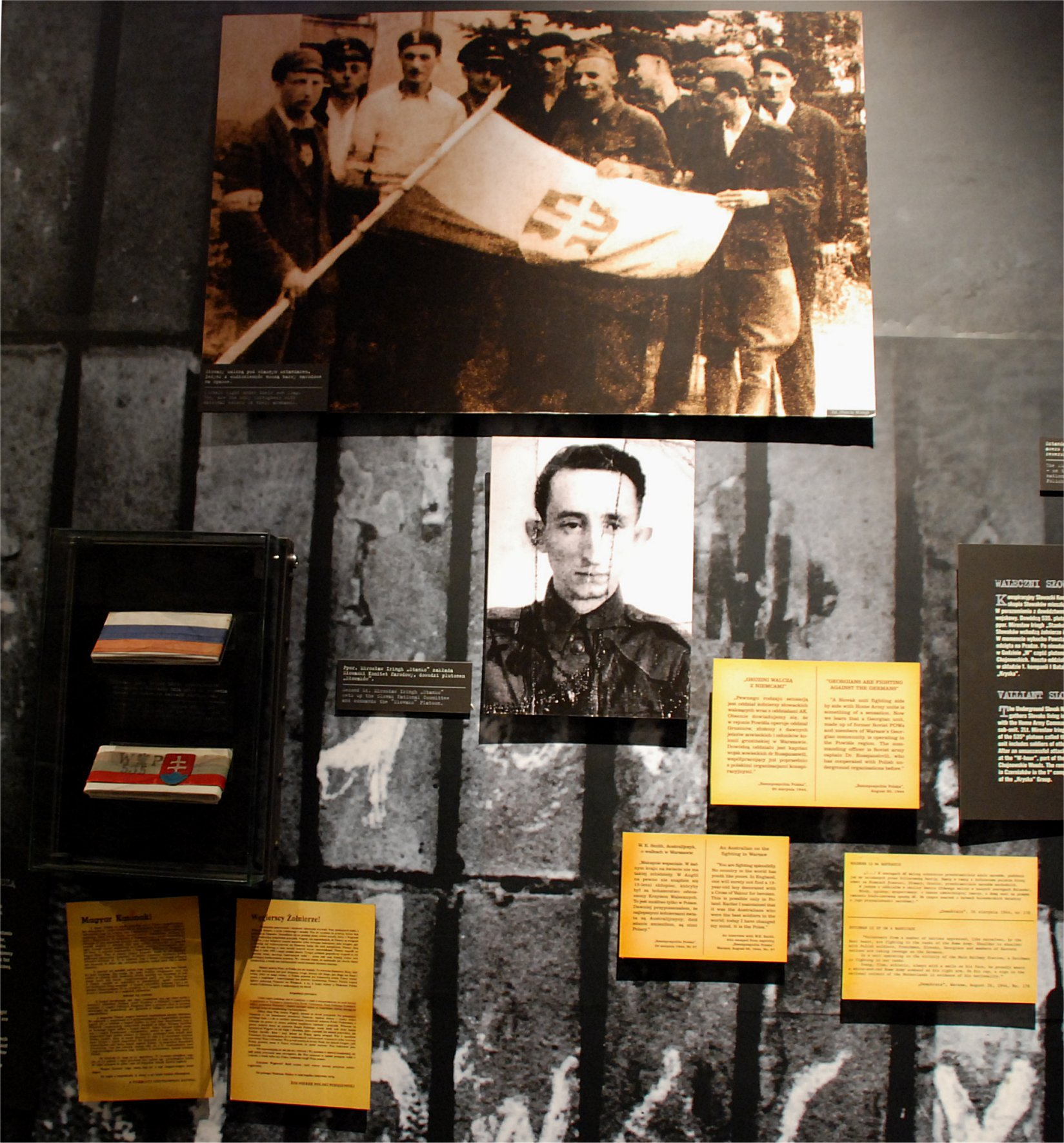 Part of a section in the Rising Museum in Warsaw about 535 Slowak Platoon from 1st company of "Tur" Battalion from Zgrupowania "Kryska" and fighting in Czerniaków district during Warsaw Uprising.